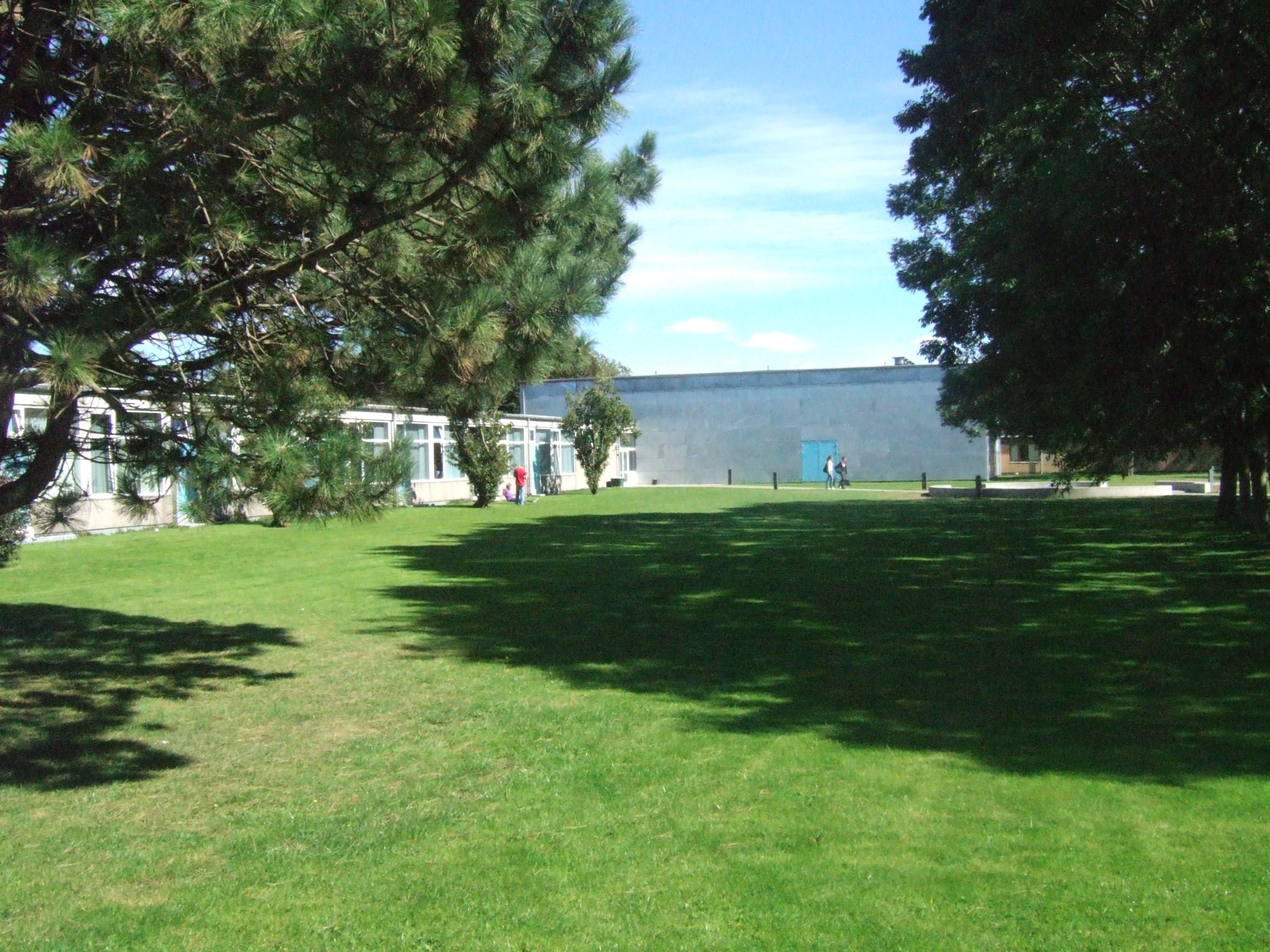 Hjørring Gymnasium August 28th 2007